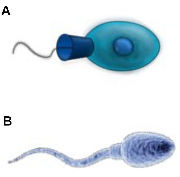 The calcium homeostasis of "modern" sperm cells looks very similar to that of "ancient" choanoflagellates. The reasoning underlying the comparison between a sperm cell and a choanoflagellate is: If we want to better understand the role of the insect male accessory gland juvenile hormone (MAG-JH), we should ask which evolutionarily ancient functions could be stimulated by the presence of JH (or farnesol) or inhibited by its absence. Farnesol is very ancient in evolution. The type of membrane receptor inhibited by farnesol (and its esters), namely a voltage-gated Ca2+ channel type (among other candidates) is also evolutionarily ancient. It goes back at least as far as the Opisthokonta (or Choanozoa), unicellular organisms with a flagellum, which preceded the animals.